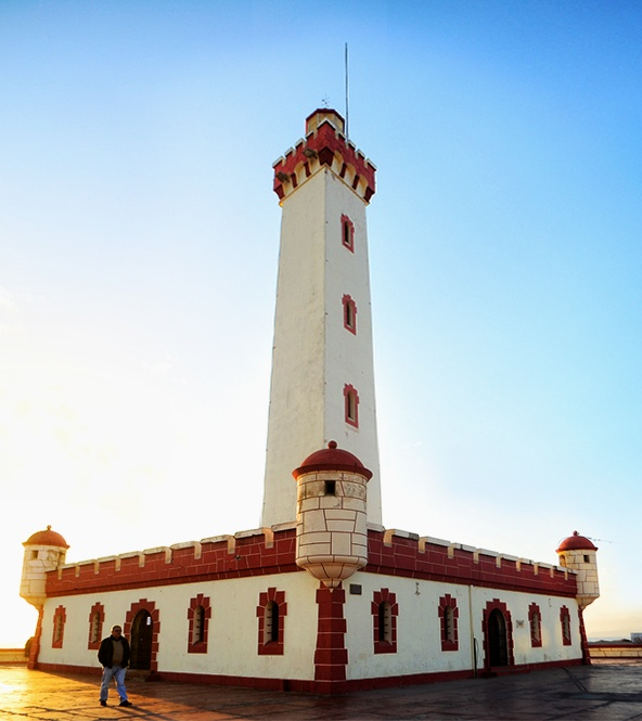 El Faro, La Serena Chile